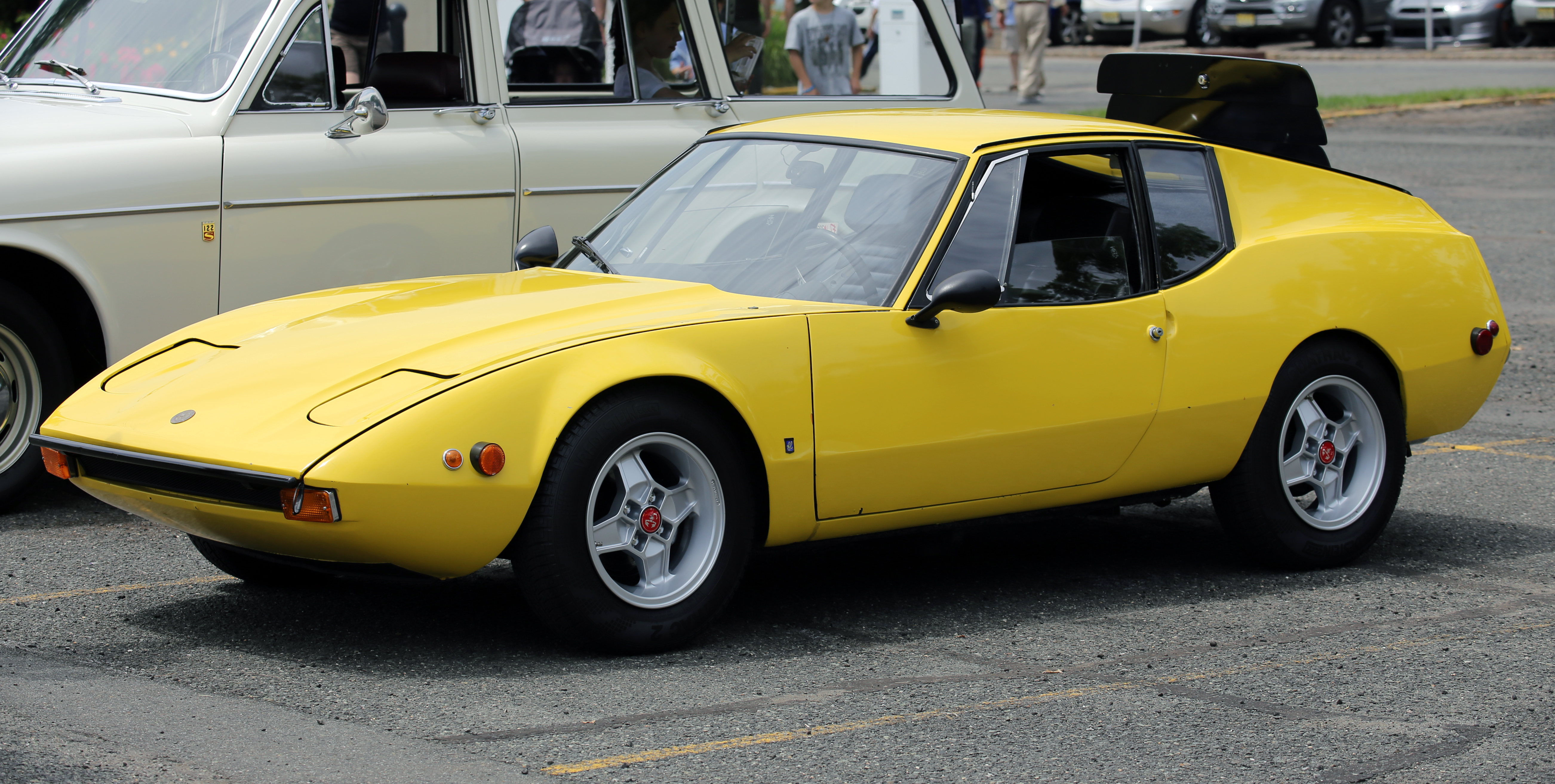 Front left view of a 1971 OTAS Grand Prix 820cc (to give the car's full name according to the emissions plate), chassis no 0035.